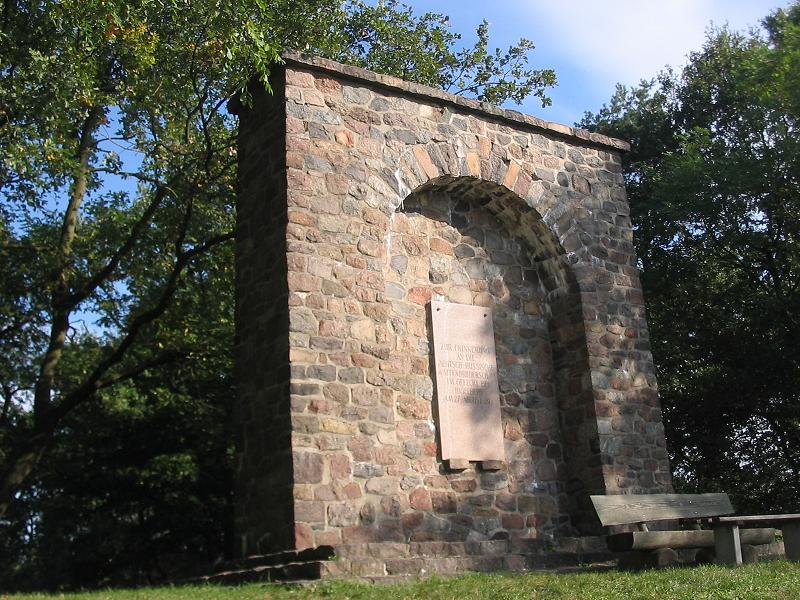 Hagelberg, new monument, built in 1955. The village Hagelberg is a part of the town Belzig in the district Potsdam Mittelmark, state Brandenburg, Germany. The village appertains to the nature park Naturpark Hoher Fläming. The eponymous Hagelberg (hill) is with a height of total 200 meters the highest elevation in the Fläming. There are two monuments commemorating to the prussian victory in the „Battle nearby Hagelberg“ in 1813 against Napoleon.